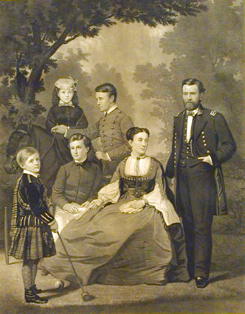 John Sartain, General Grant and his family